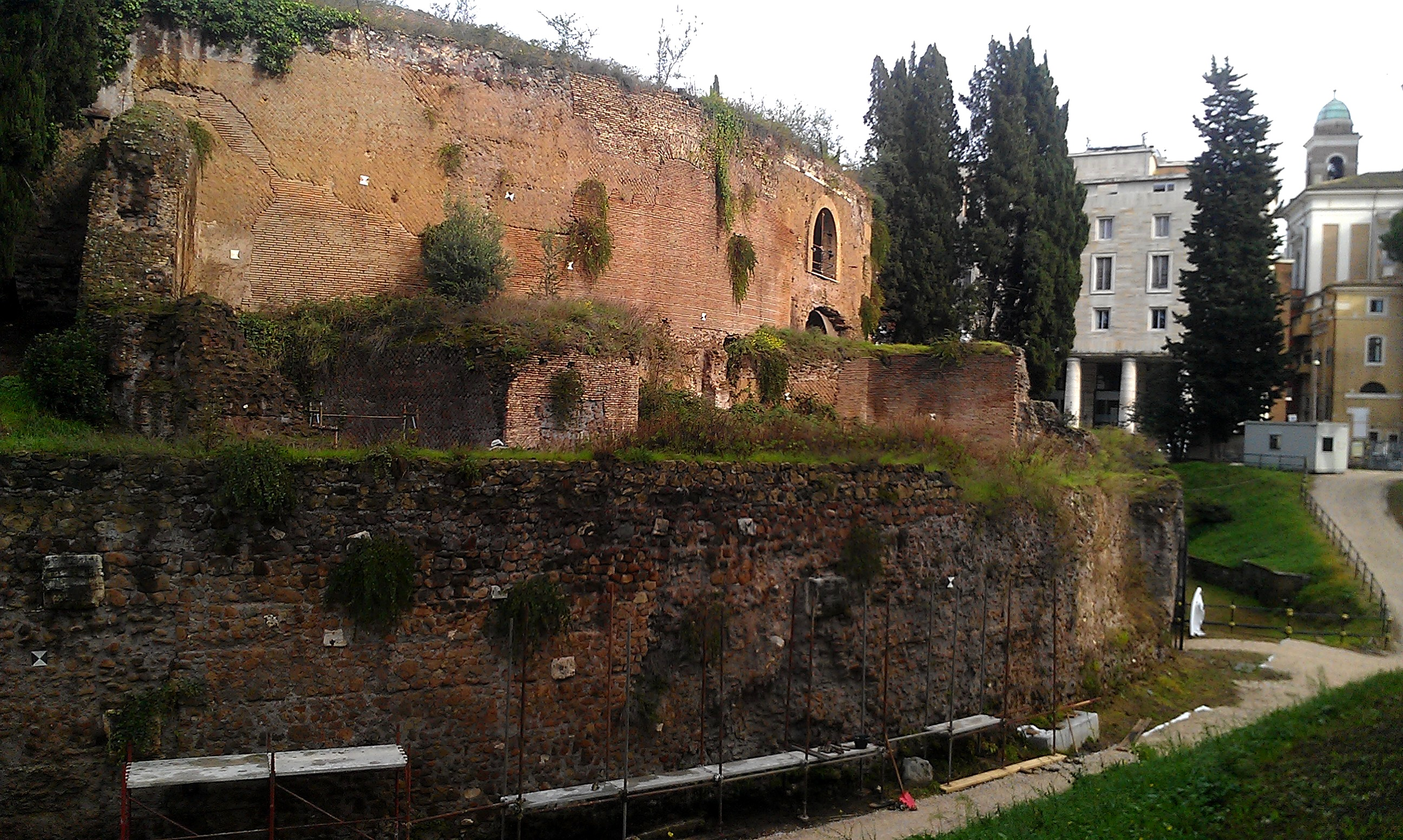 Side image of the entrance to the Mausoleum of Augustus in Rome.